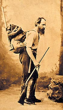 Studio portrait of Andreas Reischek (1845-1902) in exploring gear